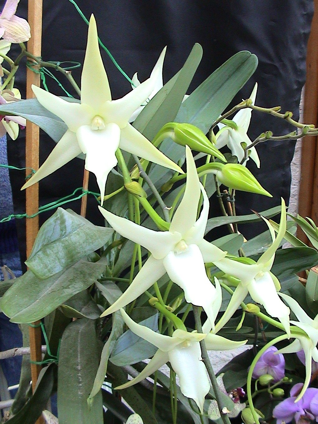 Angraecum sesquipedale Photo by Thérèse Viard Plant cultivated in France, december 2006